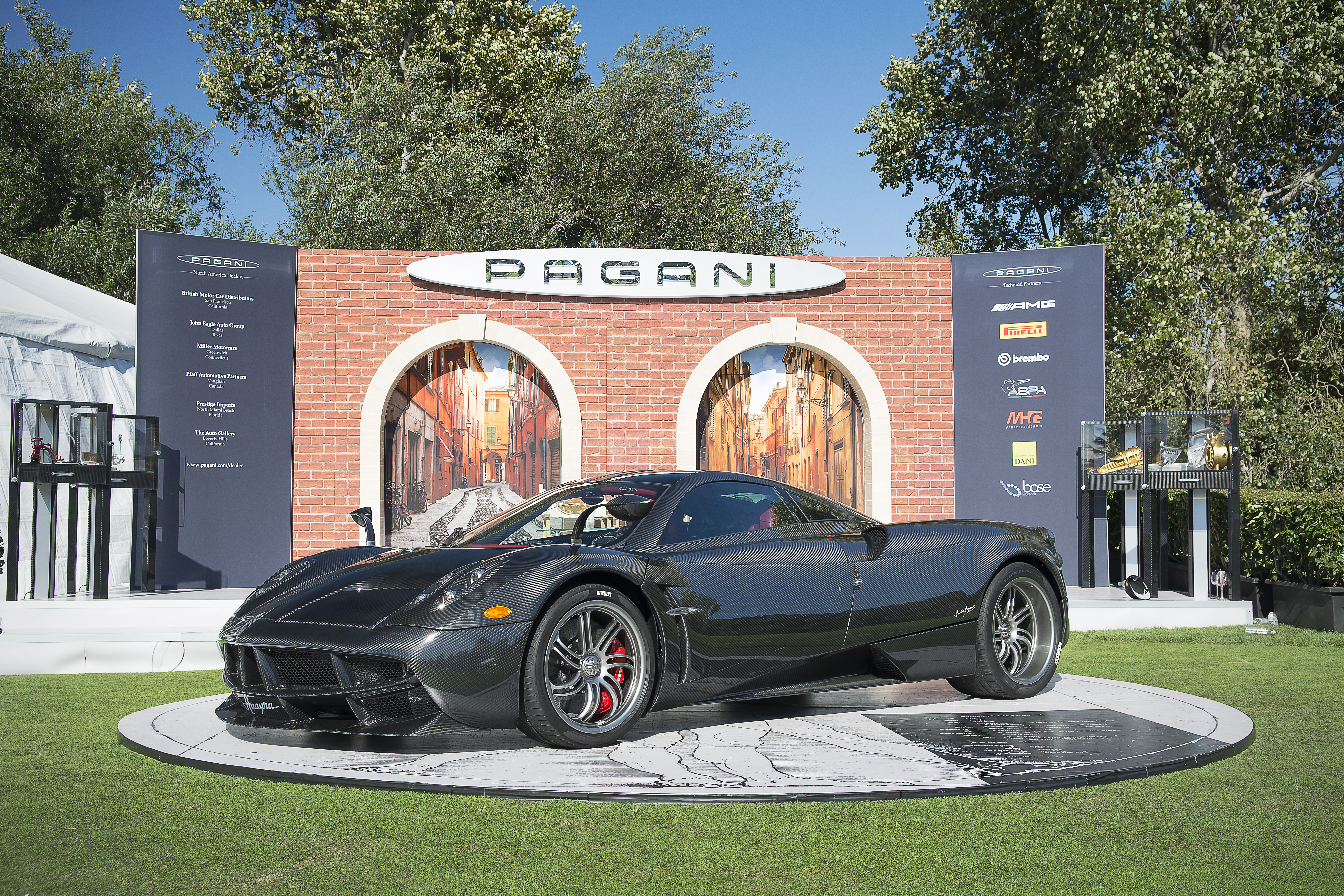 Pagani Huayra Carbon Edition at The Quail during Monterey Car Week. (cc) Creative Commons Personal and Commercial with Attribution. If you use this photo make sure you source with a link back to my site at